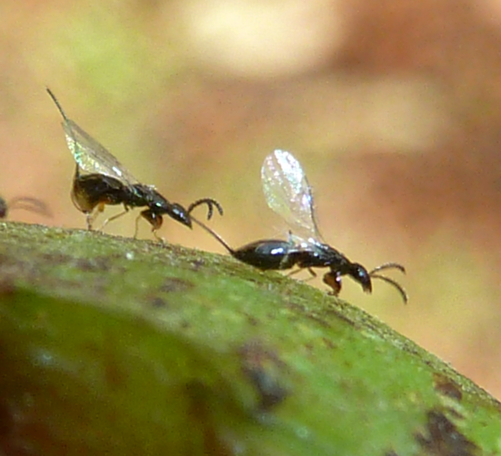 Sycophaga sp. gall wasp on Ficus sur, Jan Celliers Park